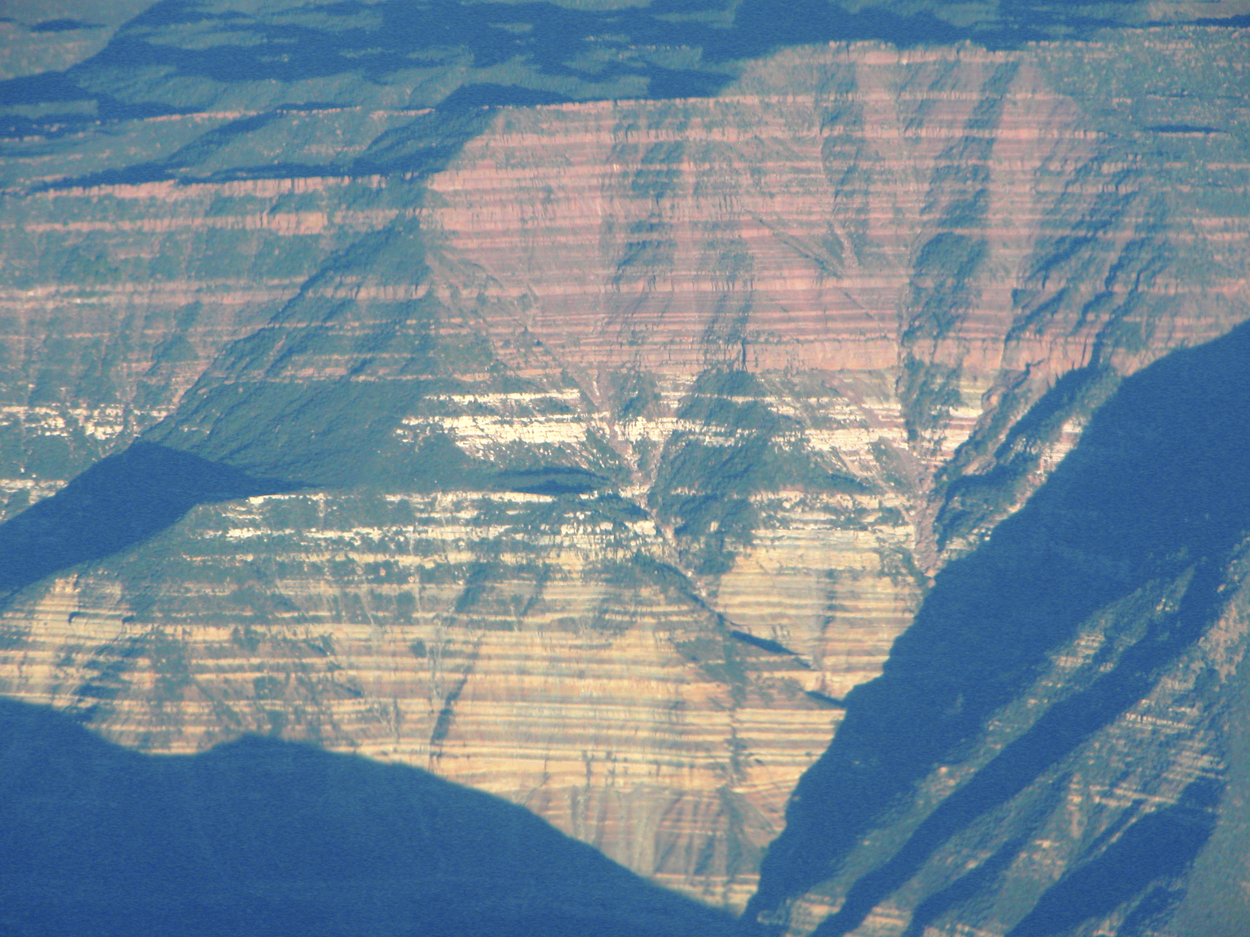 Aerial view of Sespe Wilderness, 2007 Photo by Doc Searls